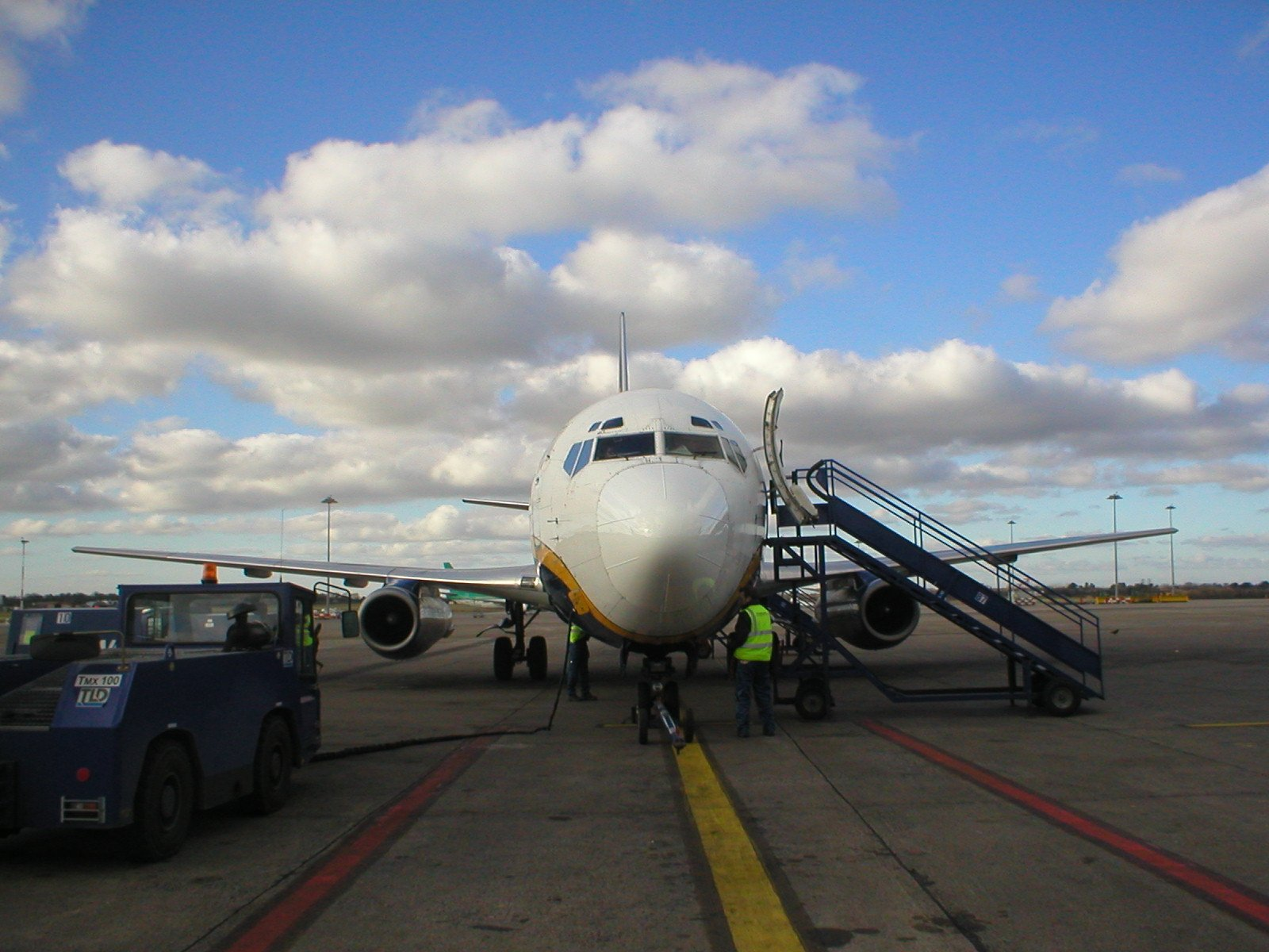 A Ryanair 737-200 airliner on the ground at Dublin Airport.